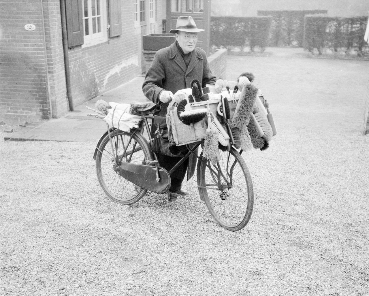 Nationaal Archief Beschrijving: Borstelkoopman op de fiets. Datum: 18 januari 1954 Vervaardiger: Anefo / Noske, J.D. Bestanddeelnummer: 906-2507 URL: Voor meer informatie over het Nationaal Archief: Voor meer foto's uit deze en andere collecties, bezoek onze Beeldbank:, U kunt ons helpen onze kennis van de fotocollecties te verrijken door tags en commentaren toe te voegen. Herkent u mensen of locaties of heeft u een bijzonder verhaal te vertellen bij één van de foto's, laat dan een reactie achter (als u ingelogd bent bij Flickr) of stuur een mailtje naar